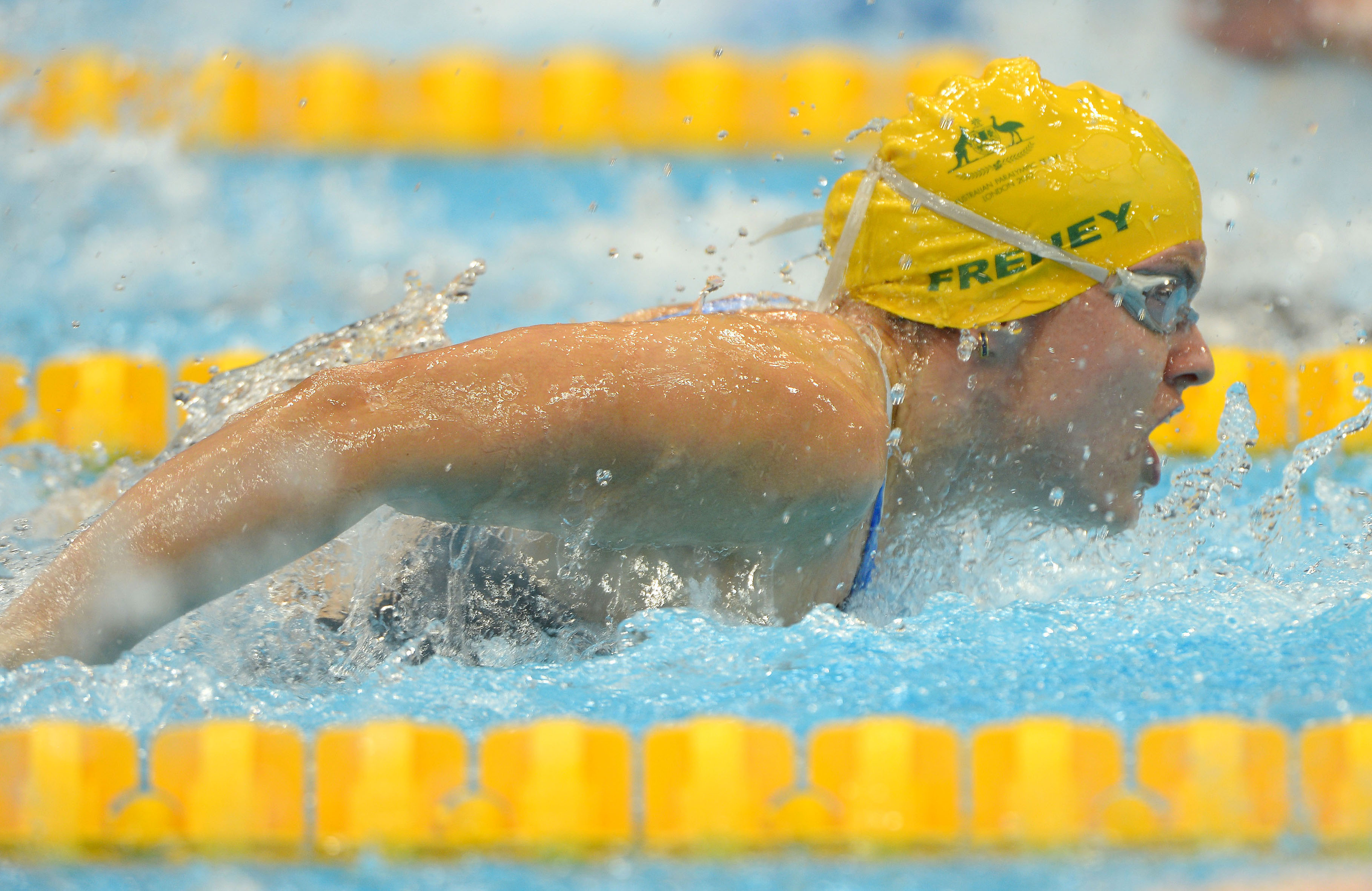 Photograph of Australian Paralympic team member Jacqueline Freney at the 2012 Summer Paralympic Games in London